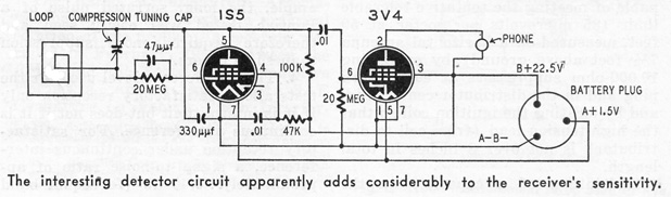 Radio-Electronics, June 1949, Volume 20, Number 9, From page 32. The two tube radio receiver cost $7.95 and was manufactured by the American Merri-Lei Corporation of Brooklyn, N.Y. The radio was powered by an external battery pack.